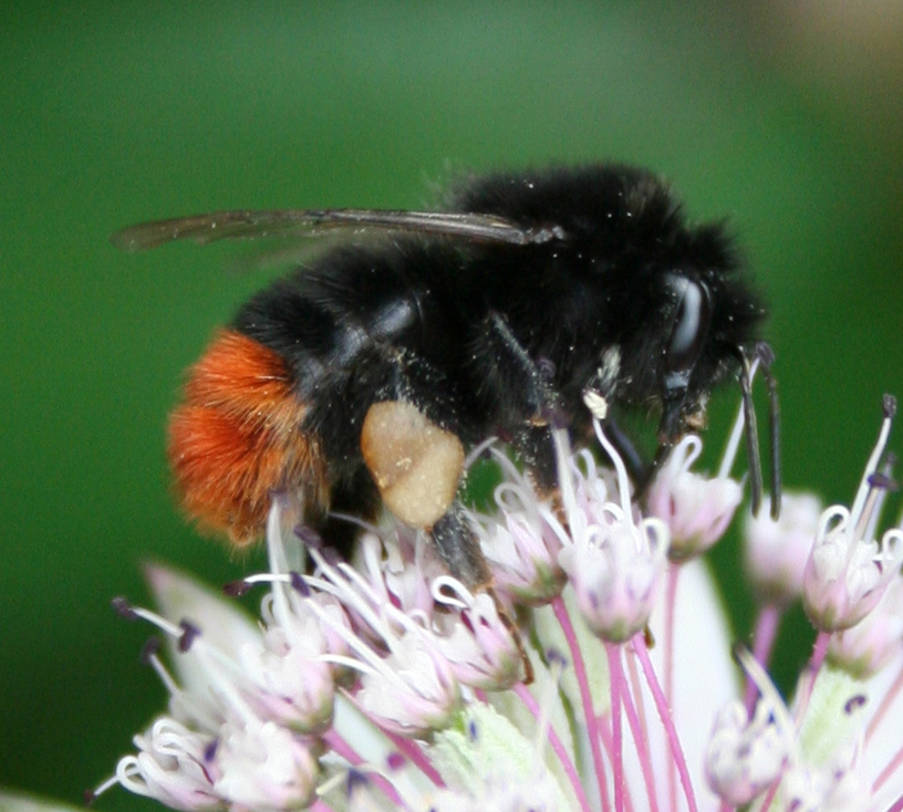 Bombus lapidarius from Trondheim, Norway. The photographer, Morten Dreier, should always be credited.